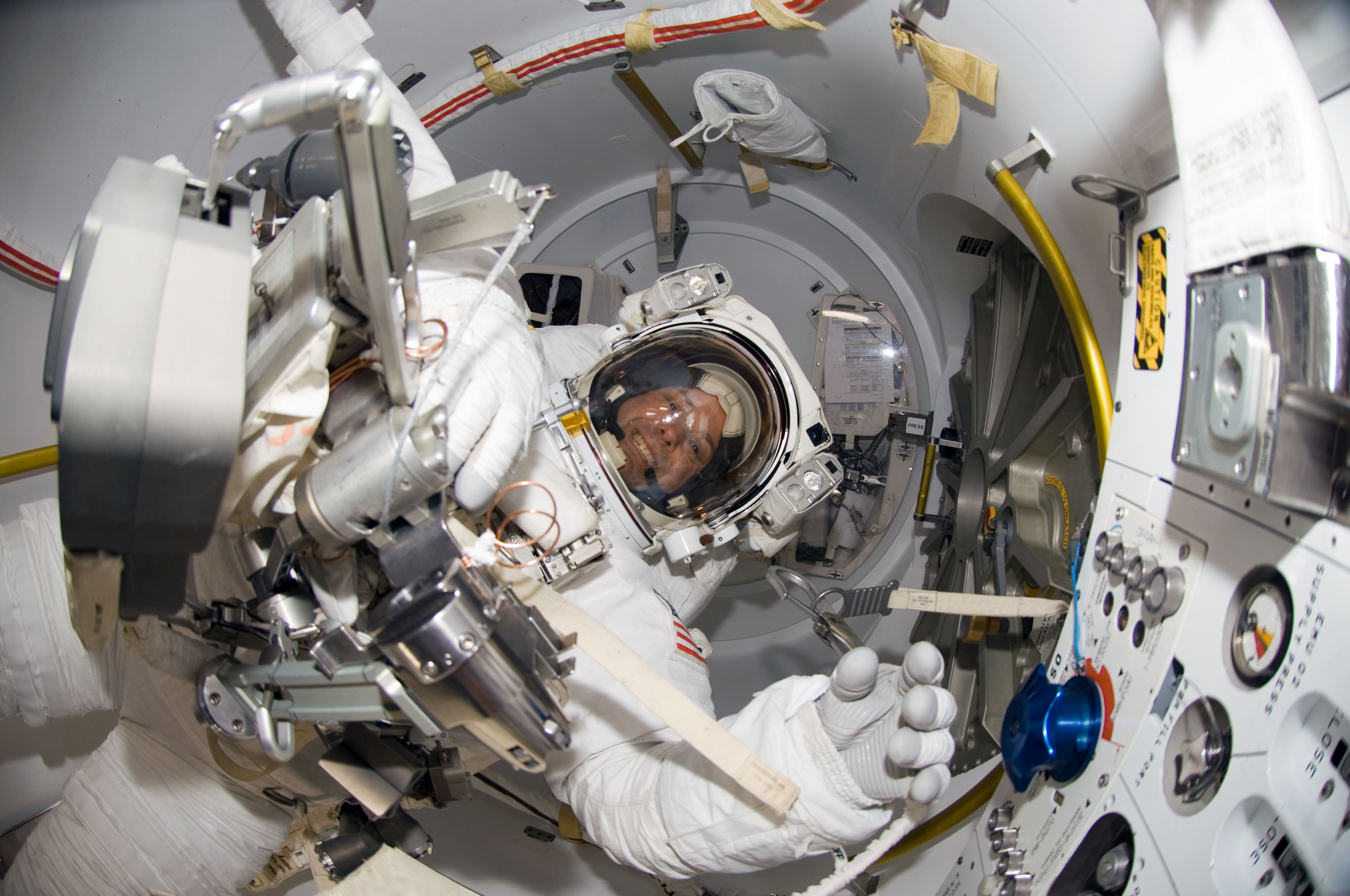 A "fish-eye" lens on a digital still camera was used to record this image of astronaut Ron Garan, STS-124 mission specialist, in the Quest Airlock of the International Space Station while Space Shuttle Discovery is docked with the station. Garan and astronaut Mike Fossum (out of frame) were about to begin the mission's third scheduled spacewalk.